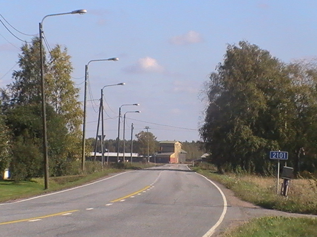 Finnish connecting road 2101 at Vuorenmaa, Köyliö as photographed from Its ending point. The road runs from Haaroinen, Loimaa to Vuorenmaa, Köyliö and Its profile is mainly devious.